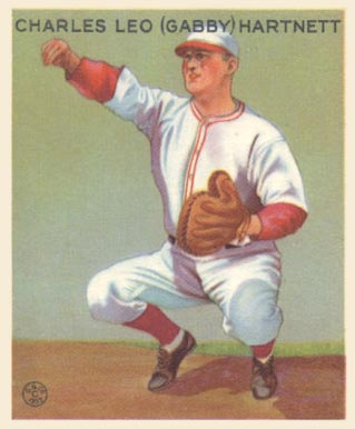 1933 Goudey baseball card of Gabby Hartnett of the Chicago Cubs #202. PD-not-renewed.